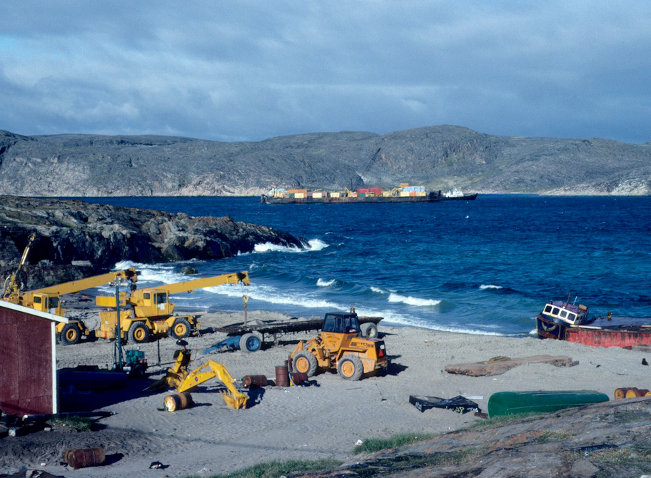 Arctic scene, Ivujivik